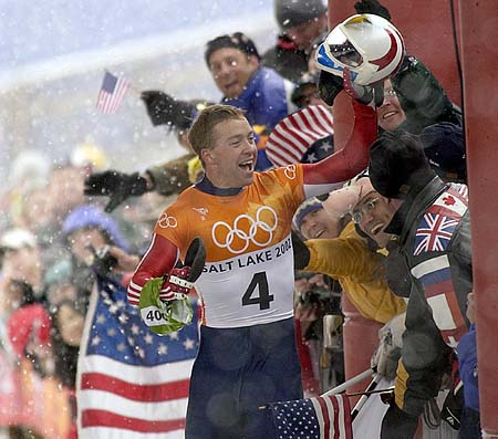 Gold medal winner Jim Shea of the United States celebrates with the fans after the Men's Skeleton competition at the Utah Olympic Park on Wednesday, Feb. 20, 2002.